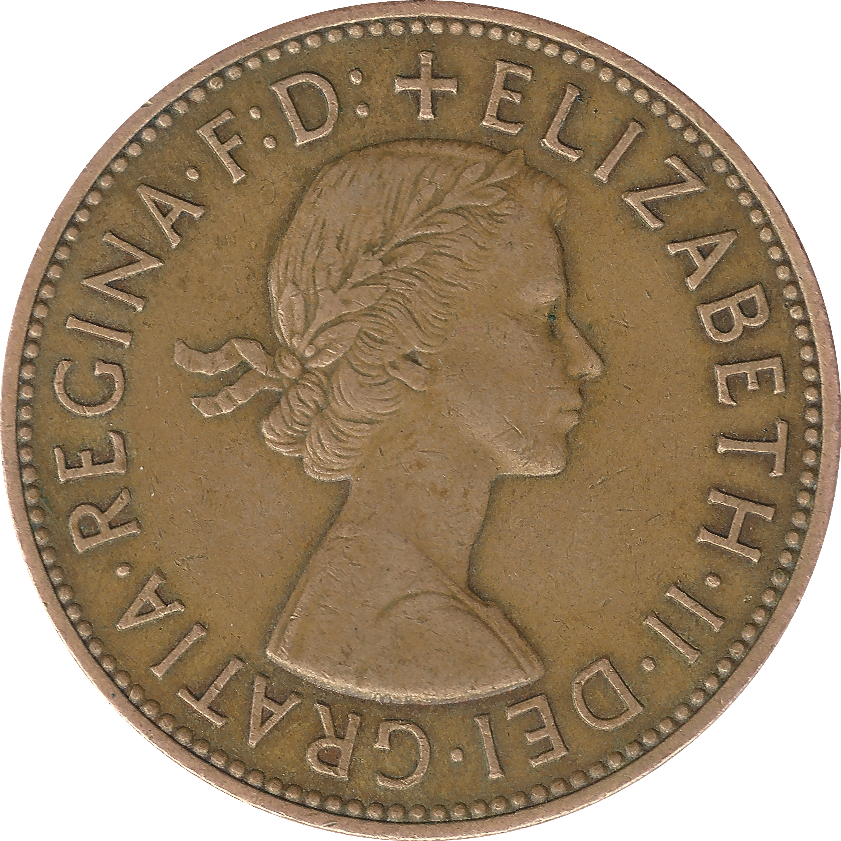 Obverse of the 1963 British penny